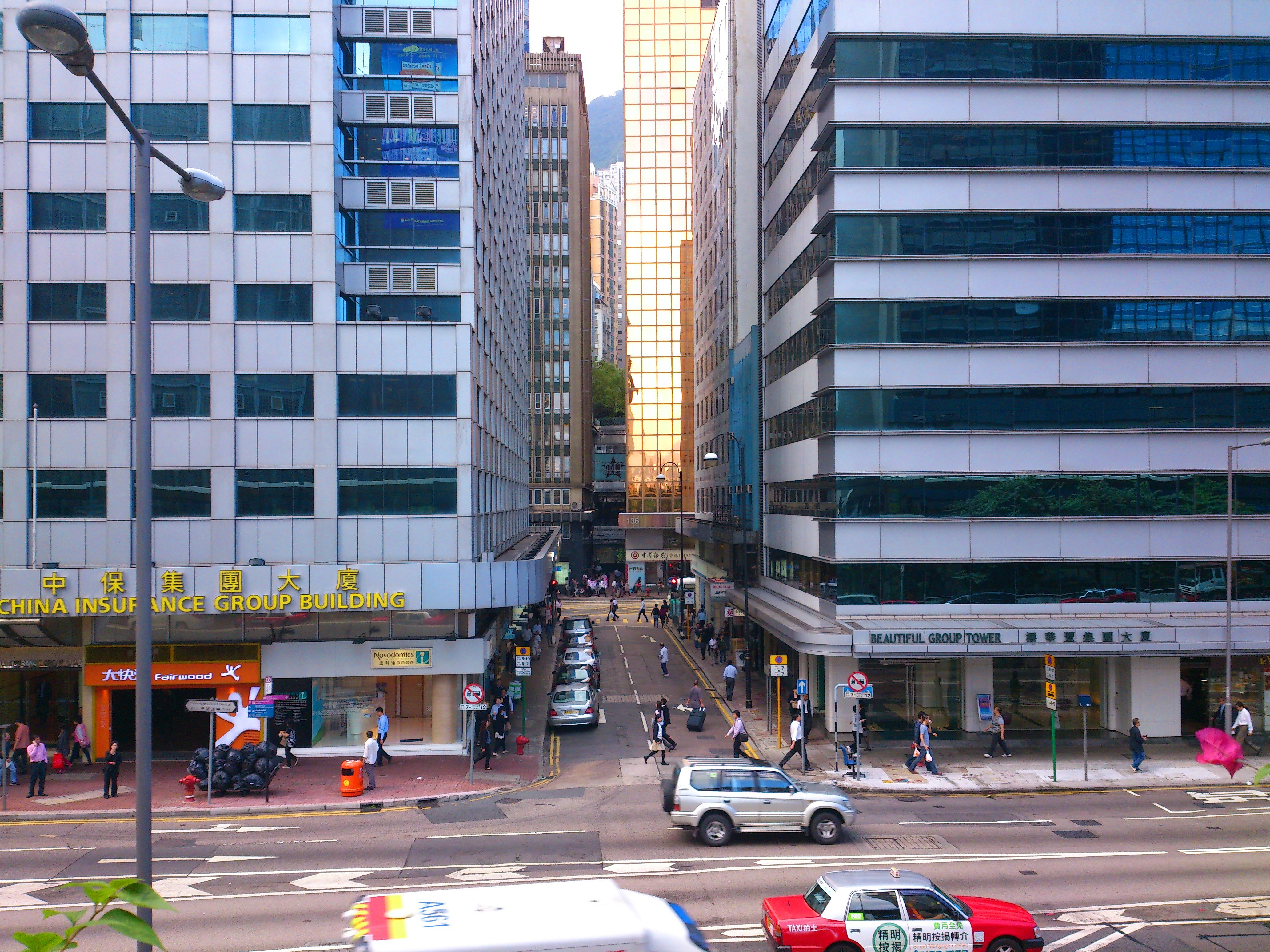 Gilman Street near China Insurance Group Building